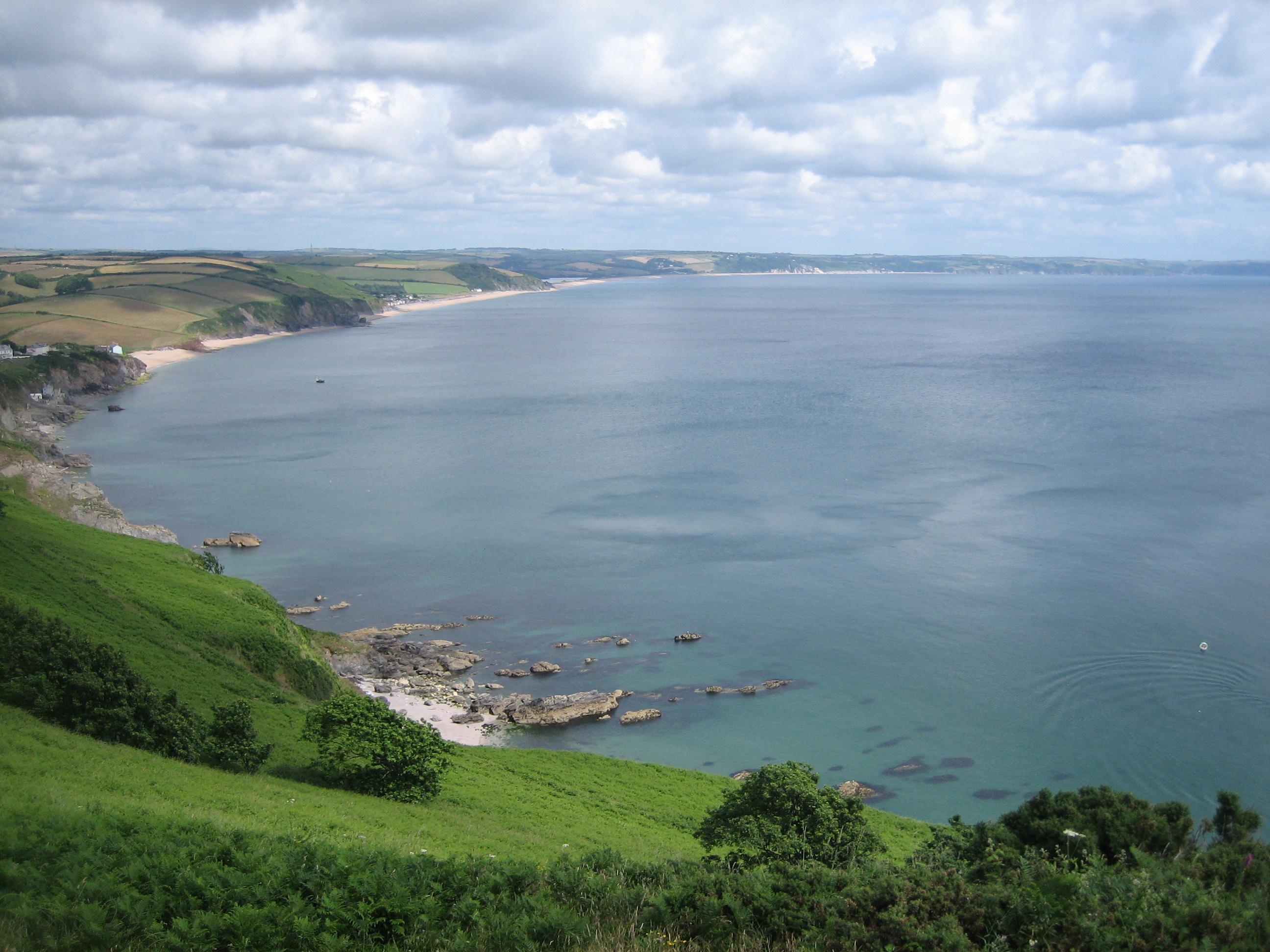 Start Bay, Deven, UK pictured from the South west showing the deserted village of Hallsands, the remaining beach of Hallsands, Beesands and Slapton Sands